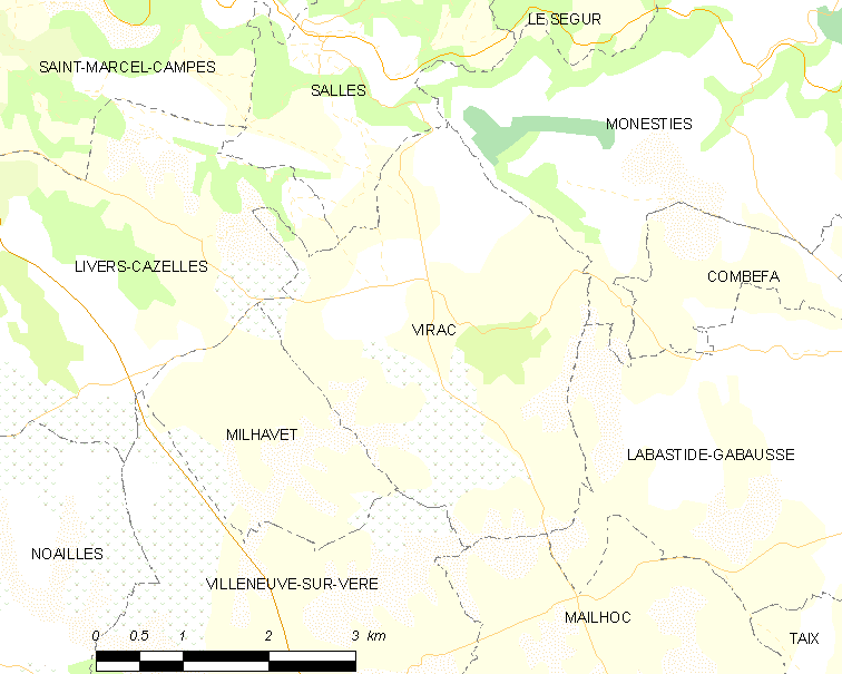 Map of French municipality Virac